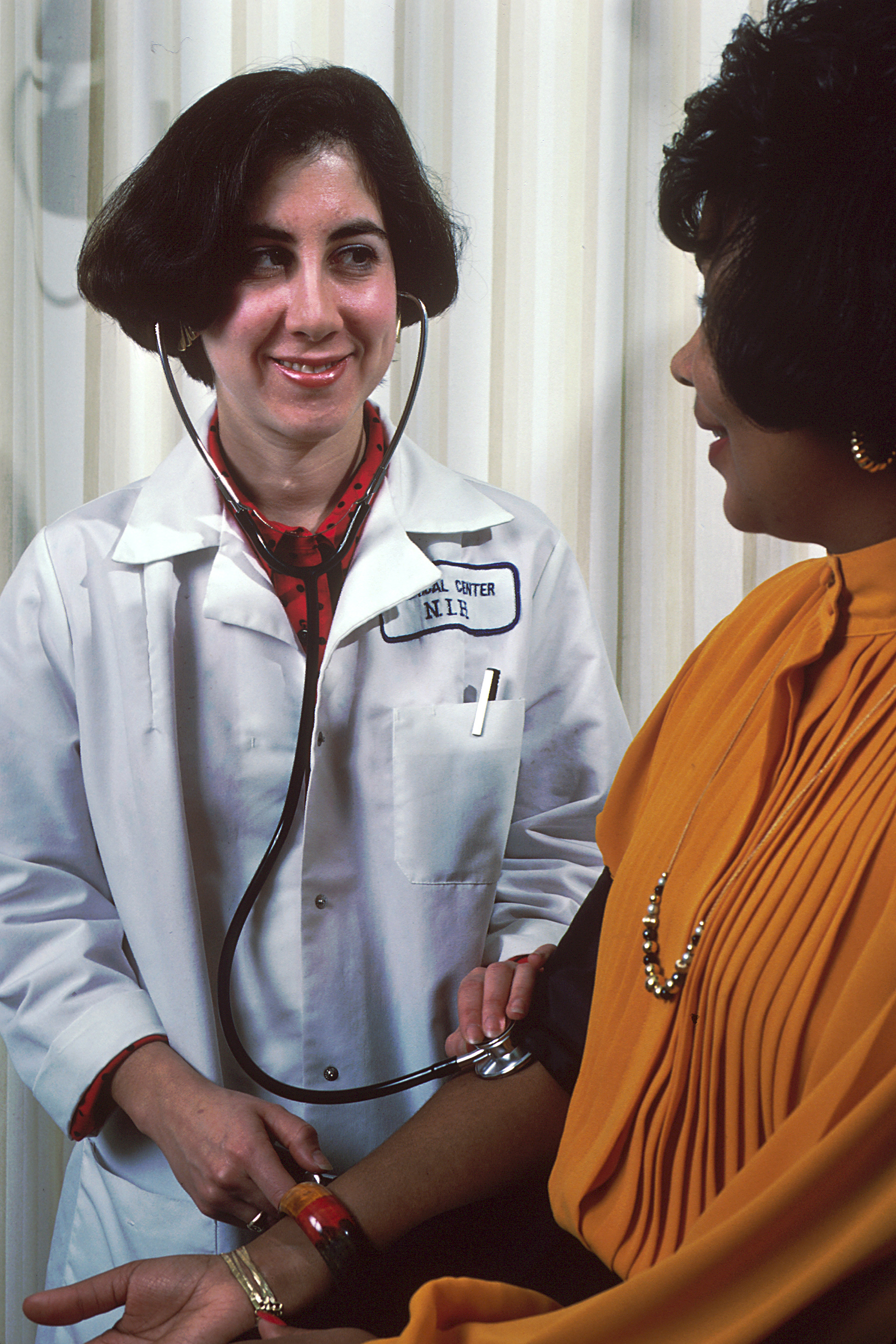 Title Nurse Takes a Patient's Blood Pressure Description A Caucasian female nurse takes the blood pressure of an African American female patient in front of a white curtain. Topics/Categories People -- Adult People -- Health Professional and Patient Test or Procedure -- Physical Exam Type Color, Photo Source National Cancer Institute